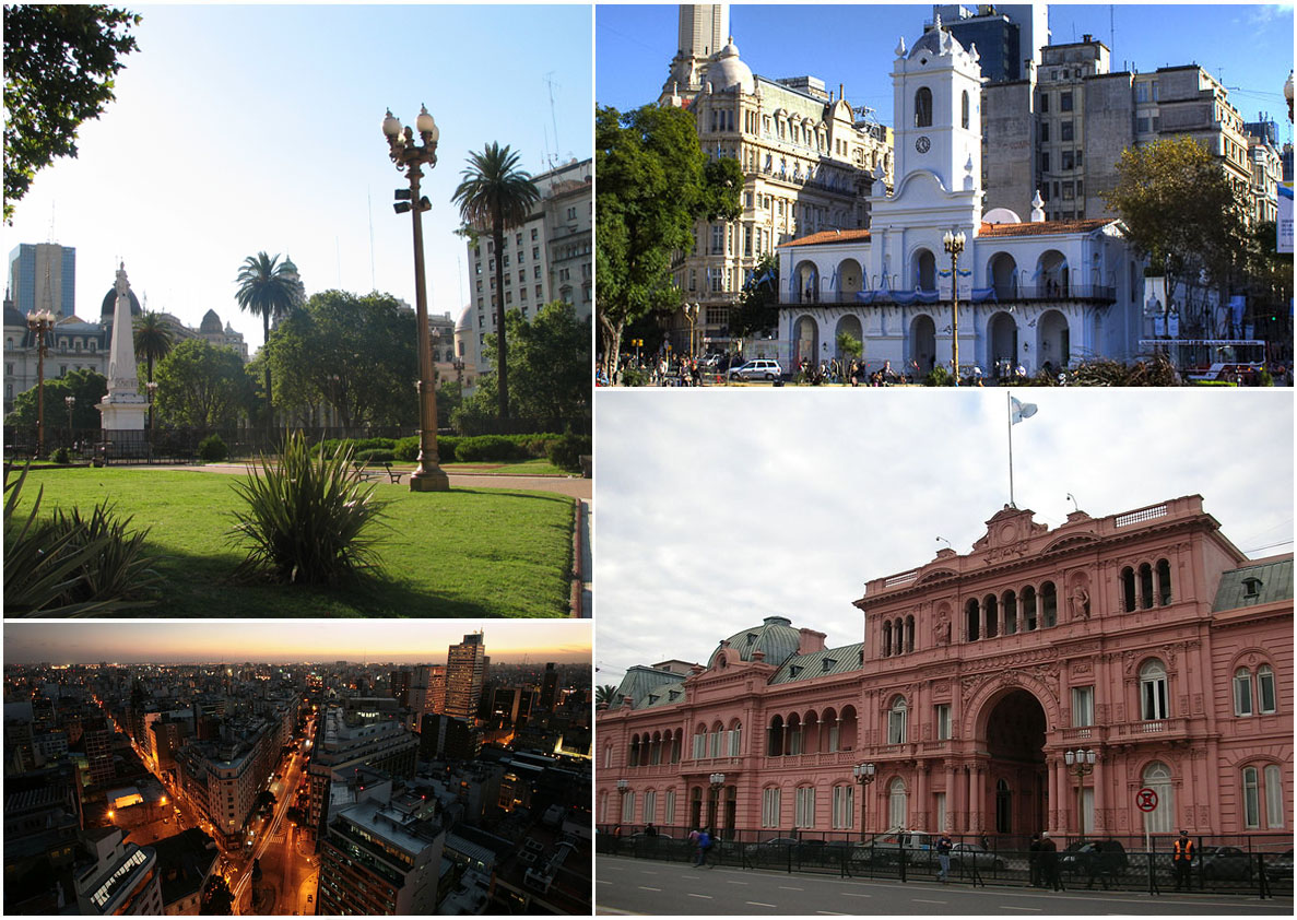 Photo montage of the Buenos Aires district of Monserrat